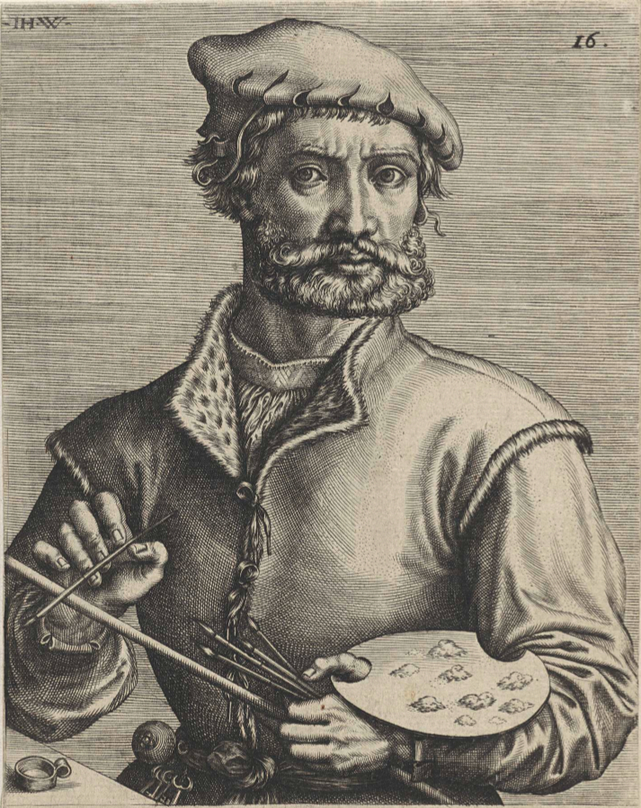 Portrait of the painter Pieter Coecke van Aelst (I)